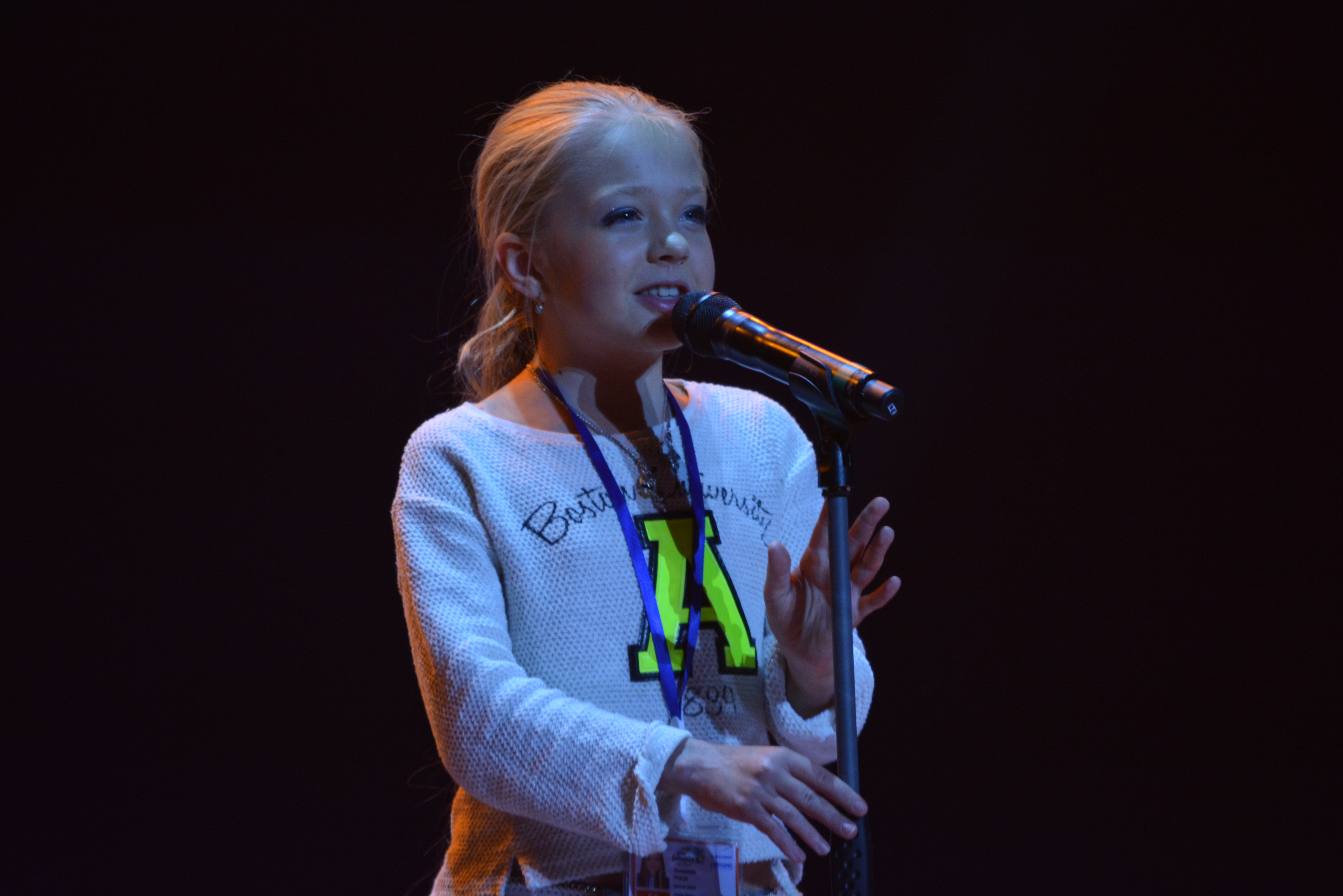 Nastya Petrik at JESC 2013 rehearsal